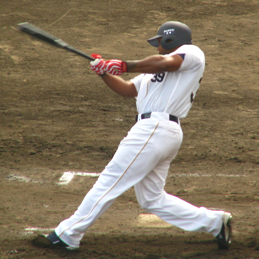 Joey Butler, outfielder of the Orix Buffaloes, at Nishikyogoku Baseball Stadium.